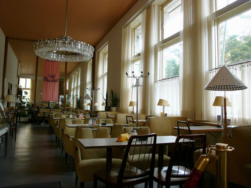 Café Prückel, Vienna, Austria